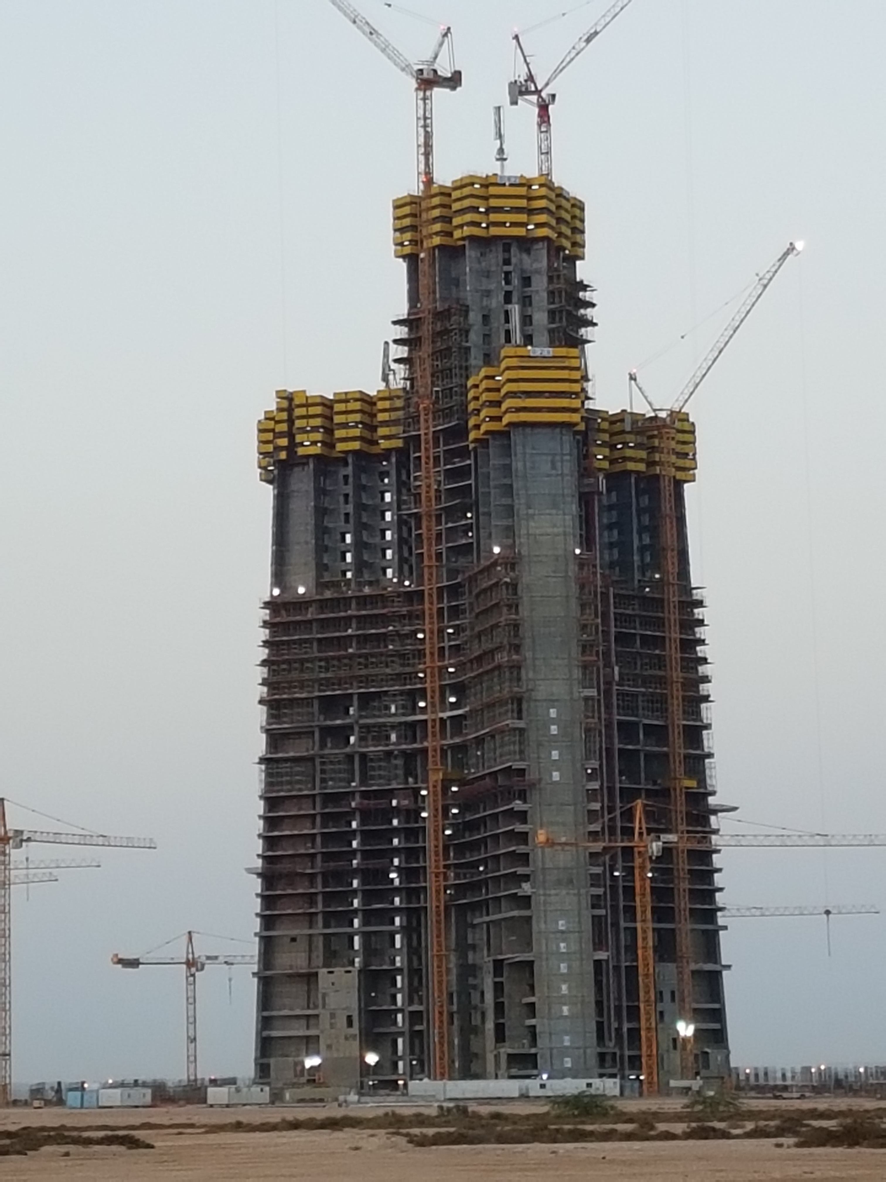 Jeddah Tower being built in northern Jeddah, Saudi Arabia. Building progress as of 13-Jul-2016